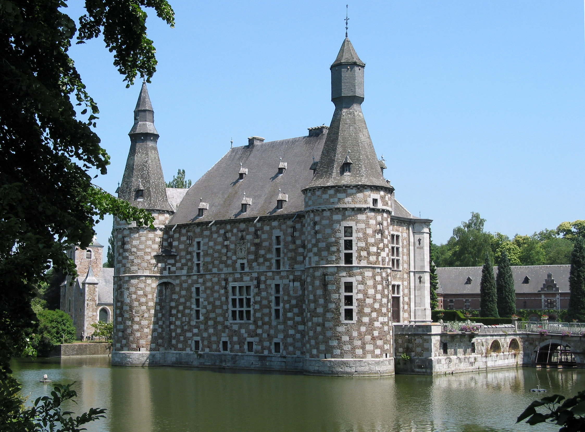 Jehay (Belgium), the castle (XVI-XVIIth centuries).